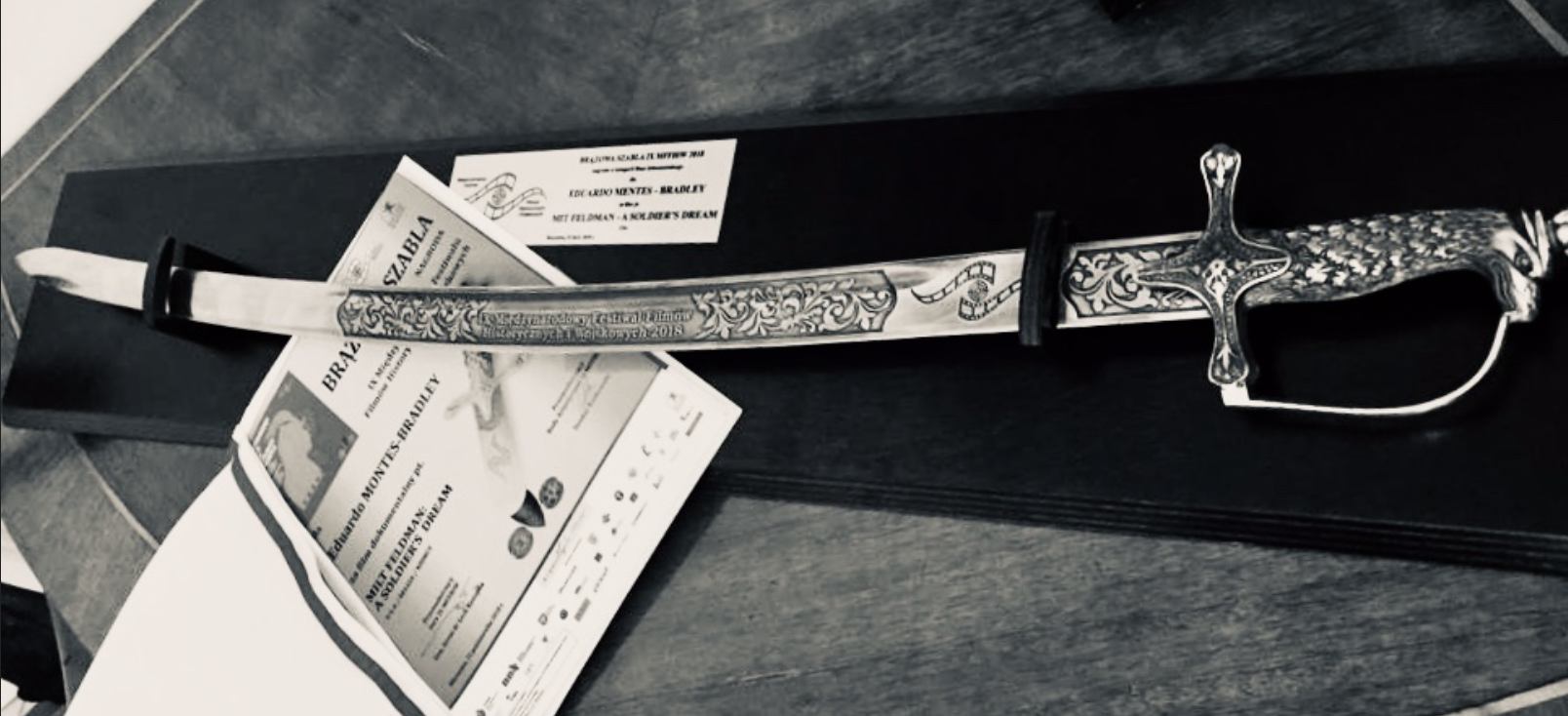 This sabre is a replica of the one used by the Polish Army. It was created by the The International Historical and Military Film Festival of Poland to award directors of films that have contributed to a better understanding of History. These values and ideals have are the basis for the support given by the European Union to The International Historical and Military Film Festival as one of the most valuable cultural events in Europe. The 9th edition of the festival is of greater relevance to us Poles, because this year (2018), marks the 100th anniversary of Poland's independence.